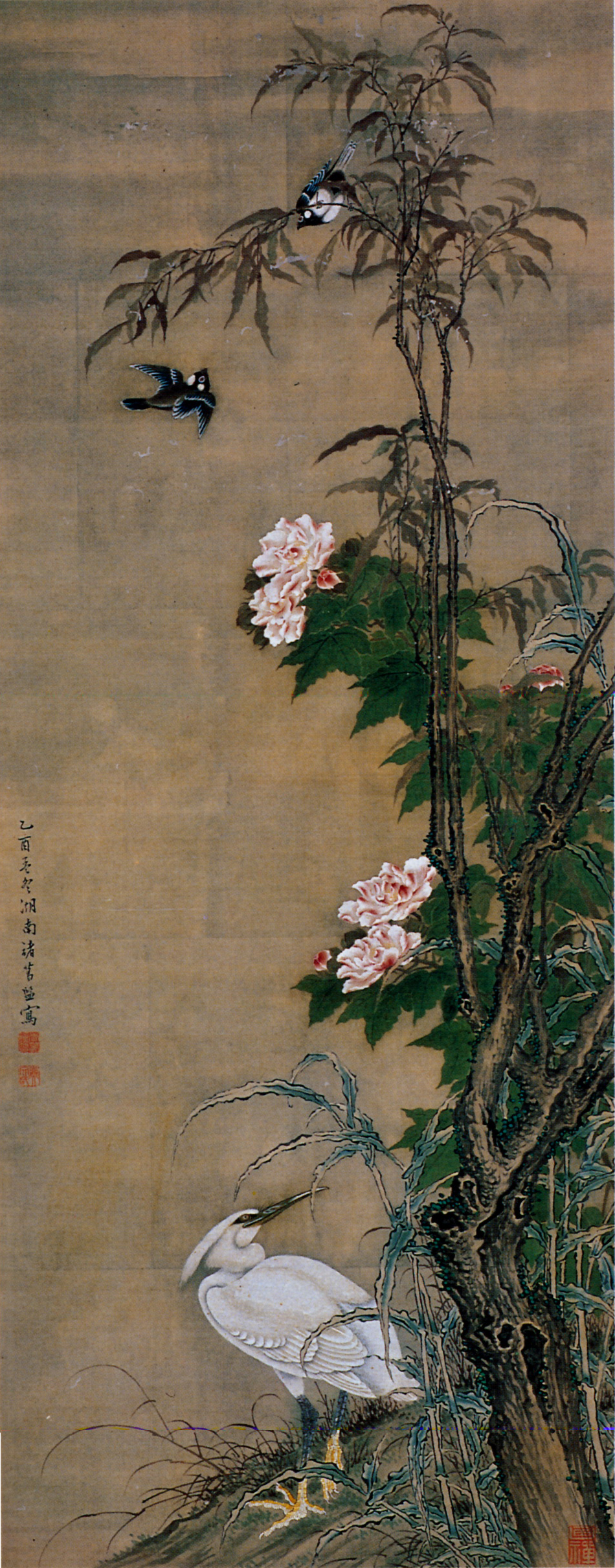 Shokatsu Kan,Flowers and birds,A hanging scroll,Color on silk,Middle Edo period,dated 1765,Kobe City Museum.